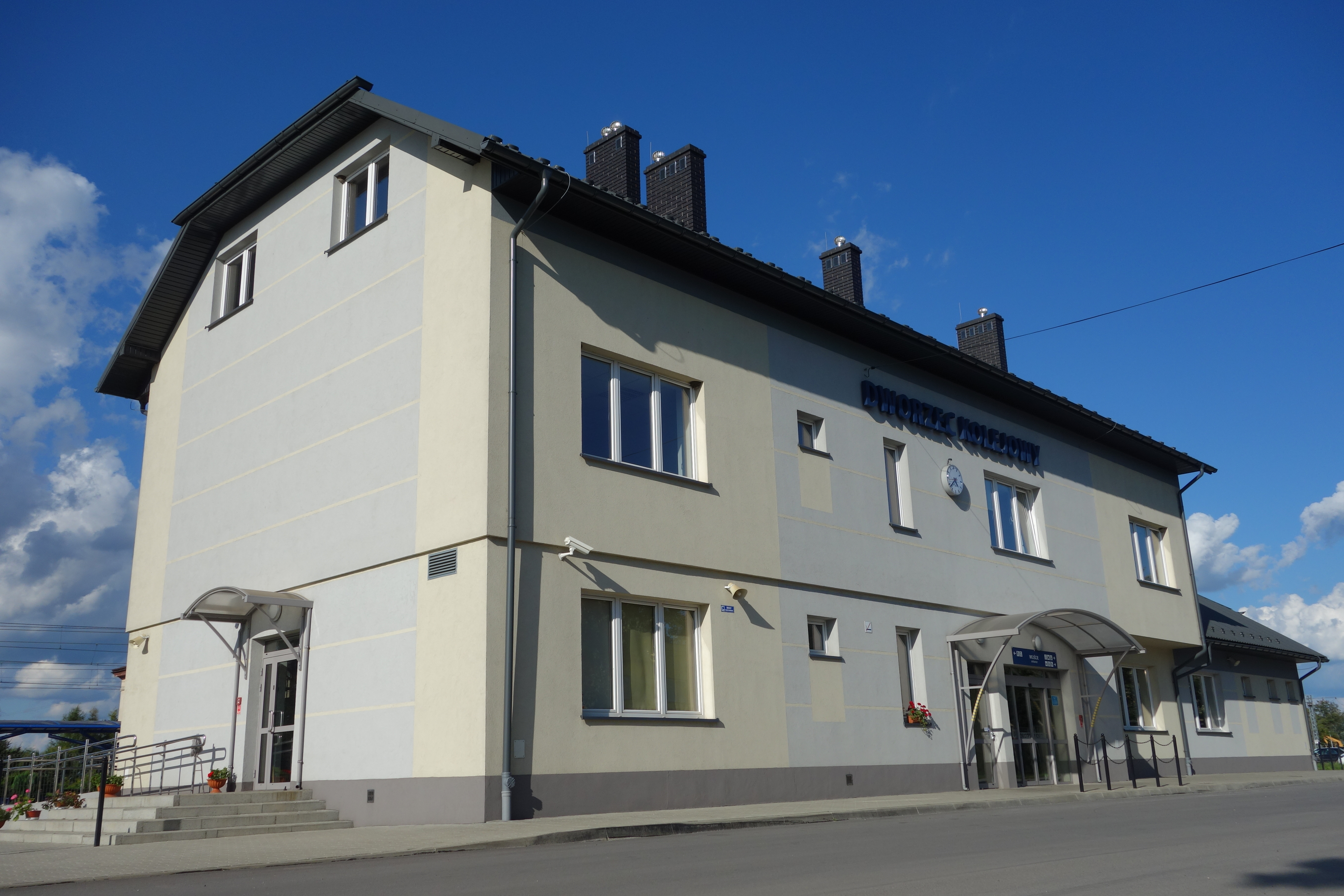 Łańcut - dworzec kolejowy This photo was taken during Railway Wikiexpedition 2014 set up by Wikimedia Polska Association in cooperation with Fundacja Grupy PKP.You can see all photographs in category Wikiekspedycja kolejowa 2014.